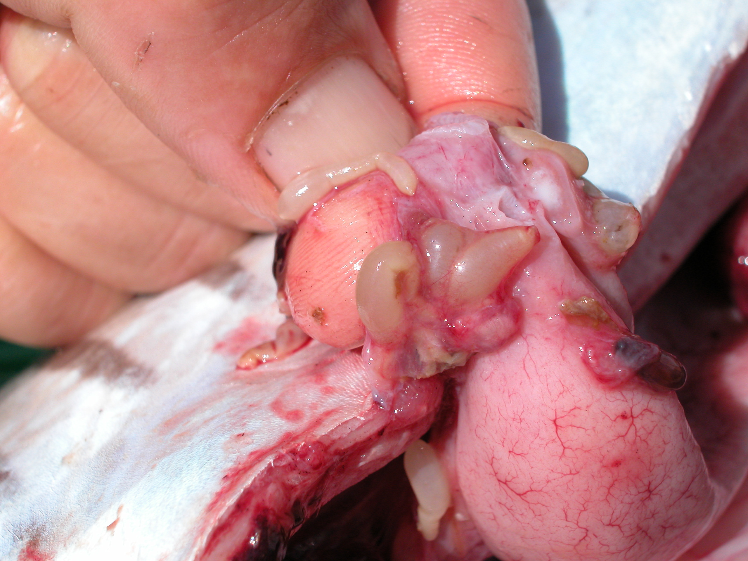 Figure 2 of paper (part of composite Figure 2-7). Viable plerocerci of Callitetrarhynchus gracilis in the body cavity of Scomberomorus commerson.